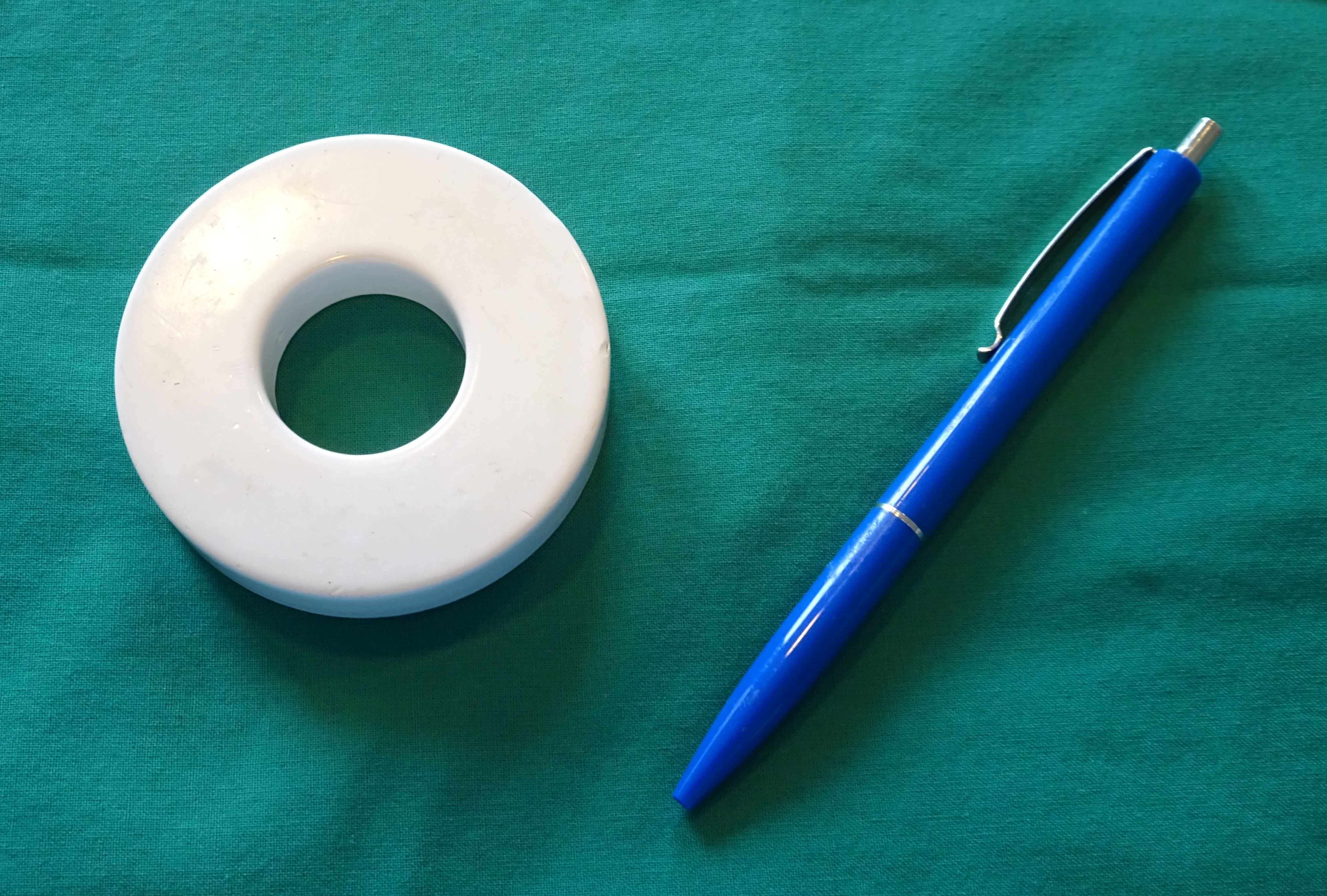 Magnet for implanted pacemakers, a ballpen for size comparison